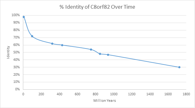 Depiction of how C8orf82 orthologs' % identity have changed over time base on the date of divergence.